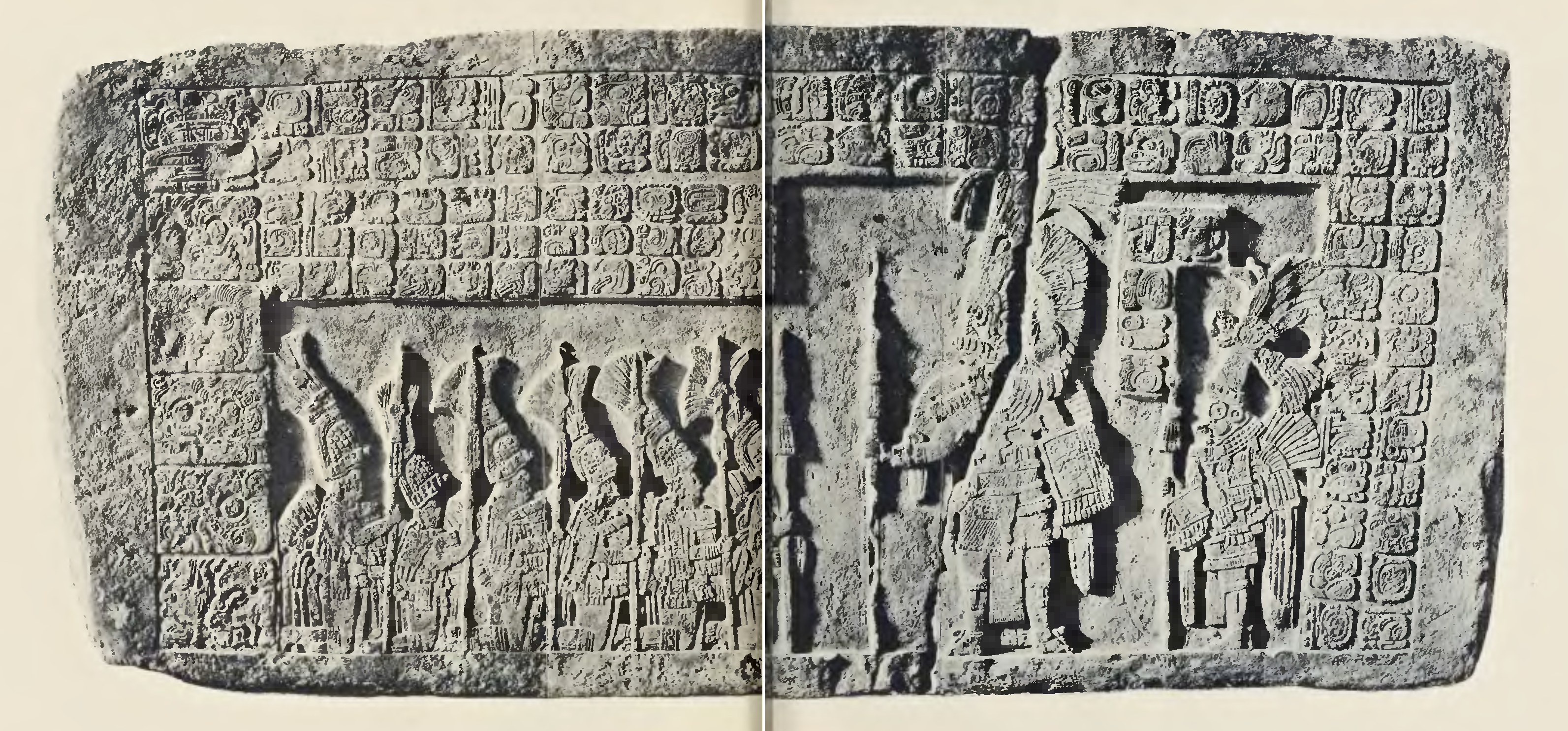 Plate XXXI from Researches in the Central Portion of the Usumatsintla Valley, published in 1901.Piedras Negras: Lintel 2.